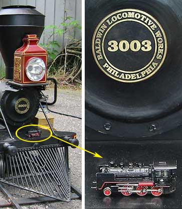 Live Steam (1:8) and Z-scale (1:220) model locomotives compared. Photo 2001 by J-E Nyström, User:Janke. I hereby place it in the Public Domain.